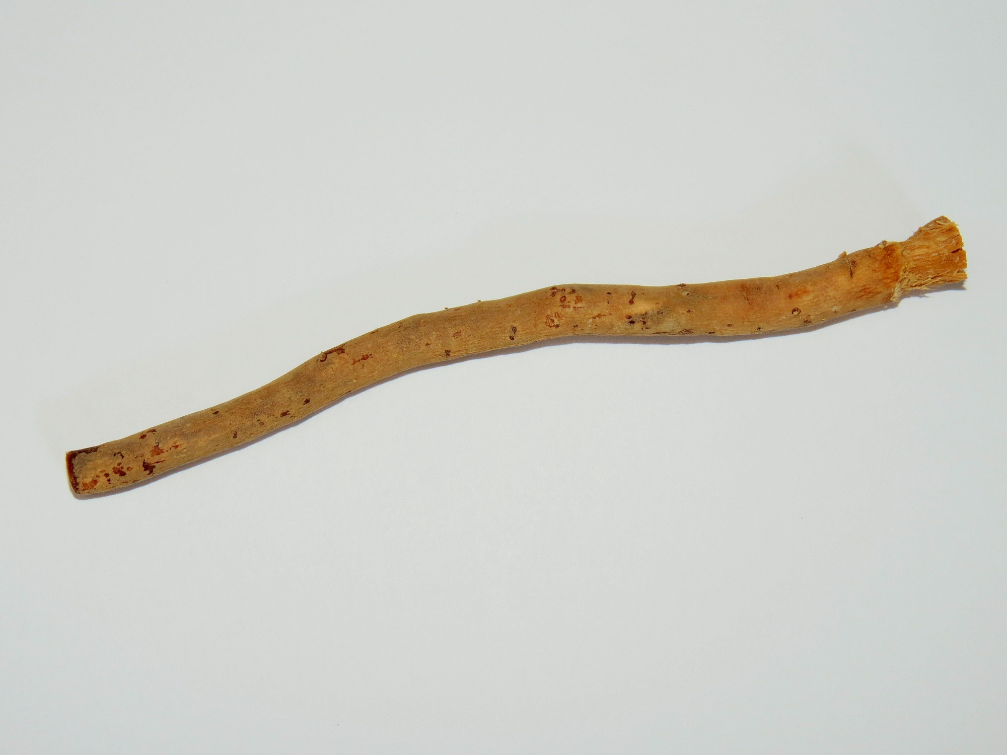 Miswak 2014